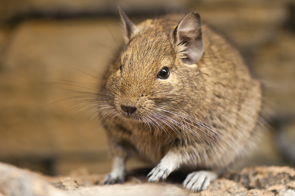 A degu at Heidelberg Zoo, Germany.